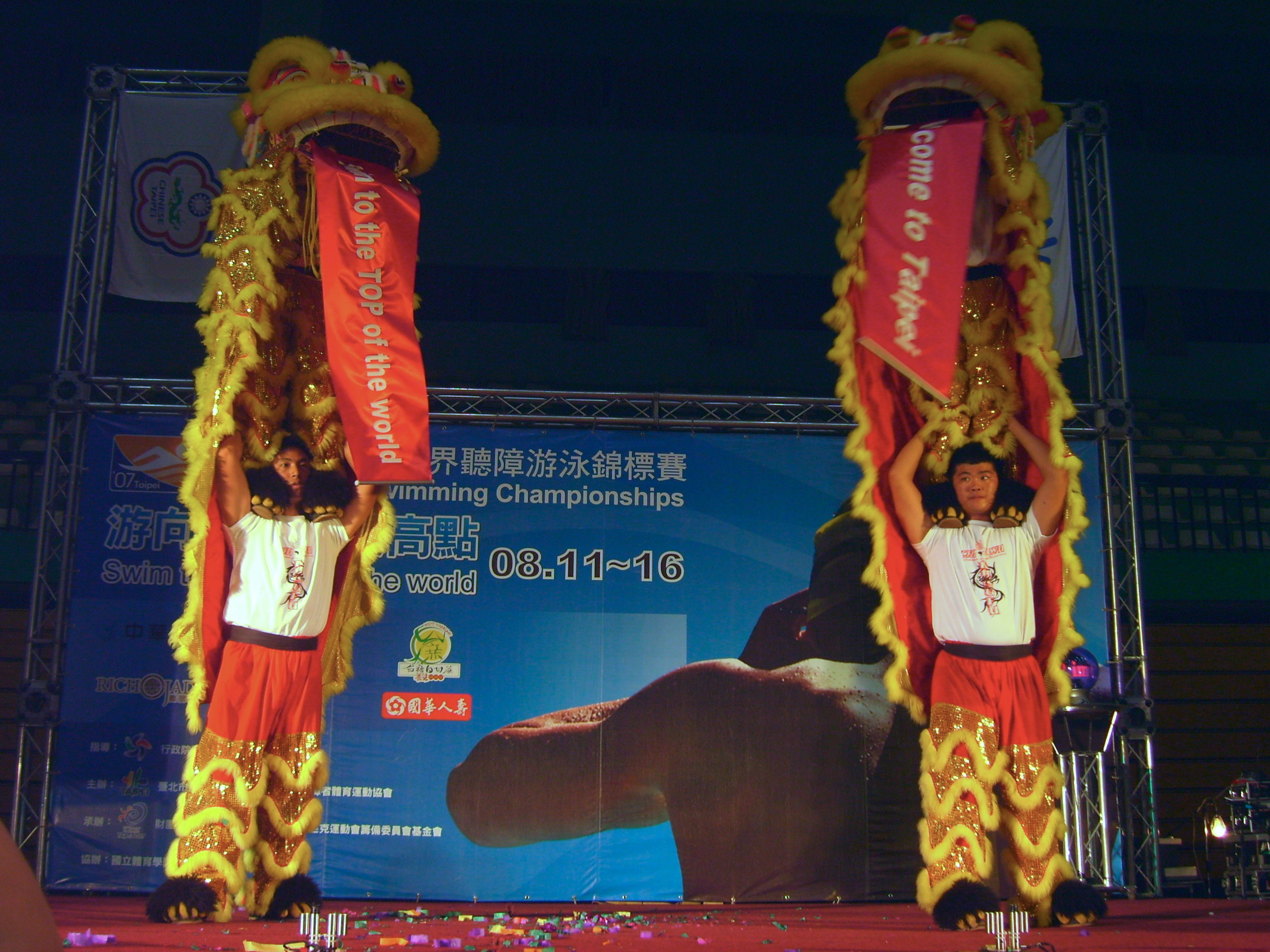 Traditional Dragon Dancing Show at the Opening Ceremony of 2007 World Deaf Swimming Championships.